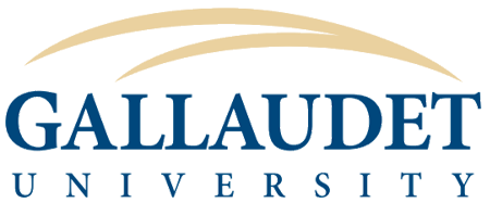 Logo of Gallaudet University of Washington.